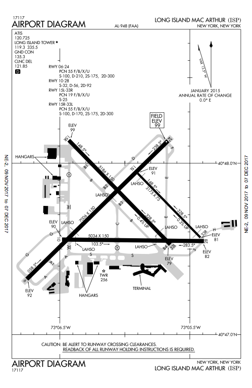 Airport diagram for Long Island MacArthur Airport